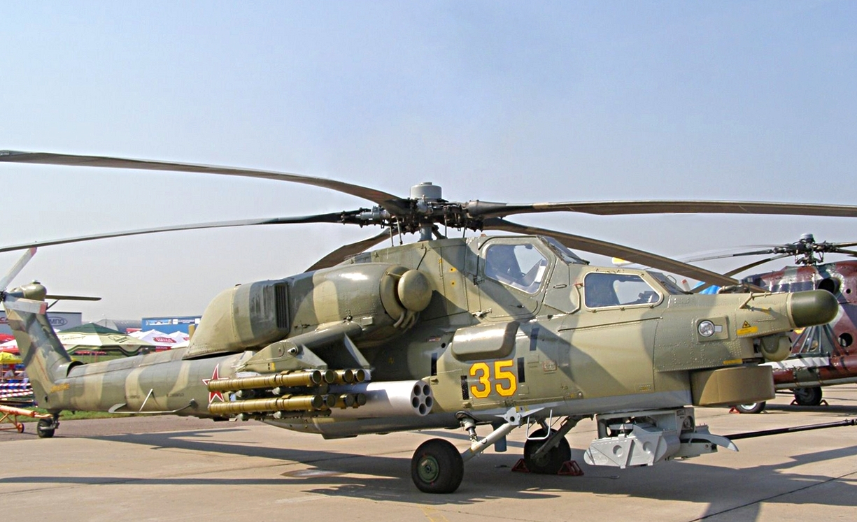 Mil Mi-28N on display at MAKS-2007 airshow